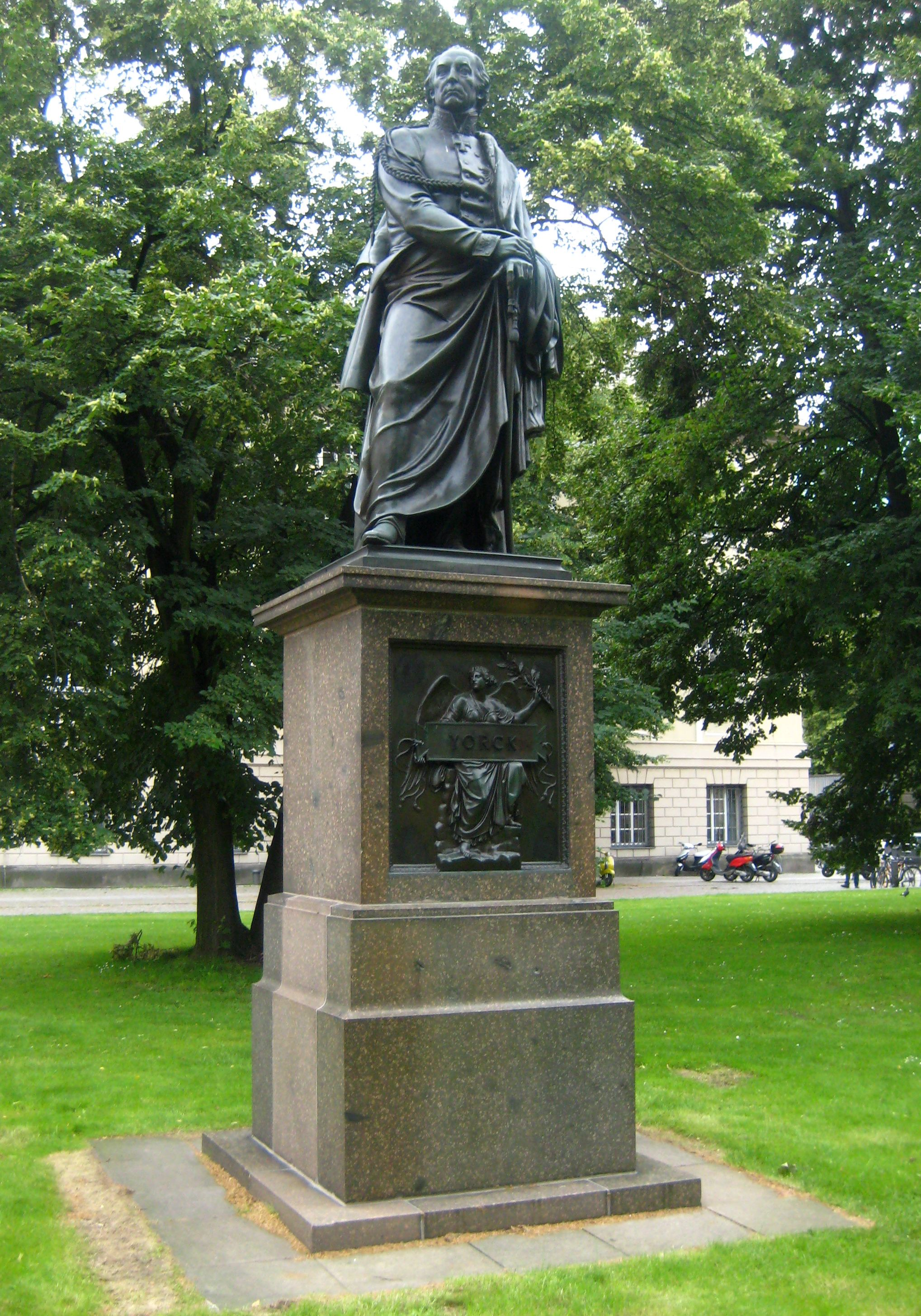 Memorial for General Johann David Graf Yorck von Wartenberg on Bebelplatz in Berlin-Mitte. It was created in 1855 by Christian Daniel Rauch. The sculpture has been designated as a historic landmark.